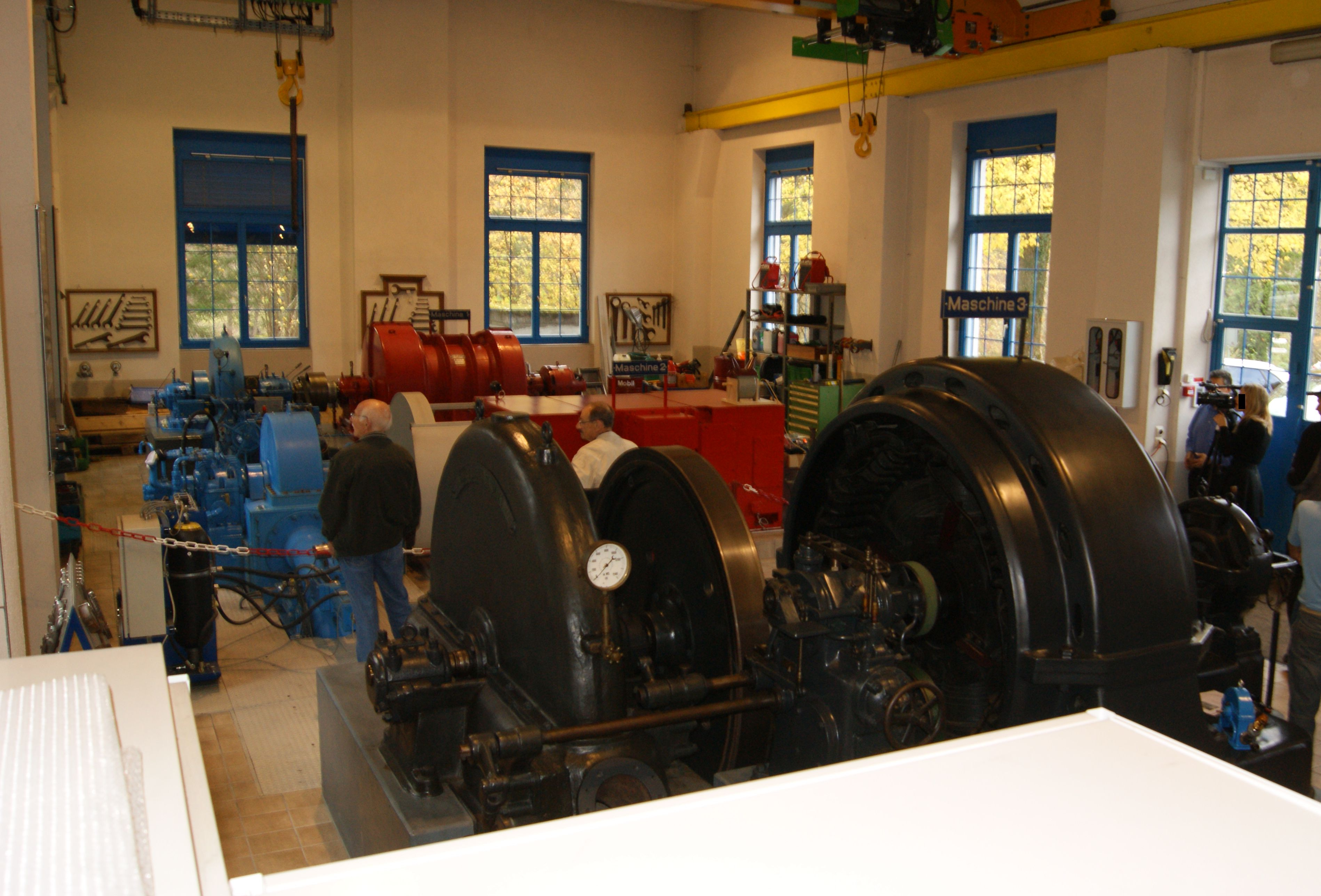 Lawena Power Plant, Triesen, Principality of Liechtenstein, machine hall.